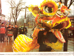 A picture I took at Pennsylvania State University of a cultural event.